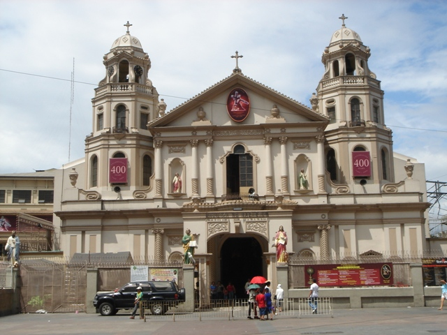 Quiapo Church, formally known as the Minor Basilica of the Black Nazarene or the Saint John the Baptist Parish.